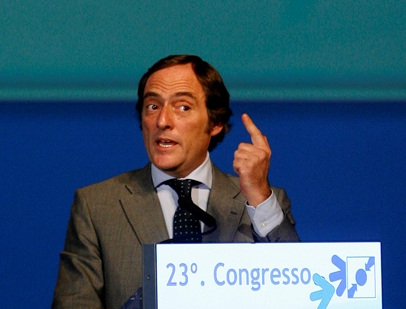 Paulo Portas in 23º Congress of CDS-PP.